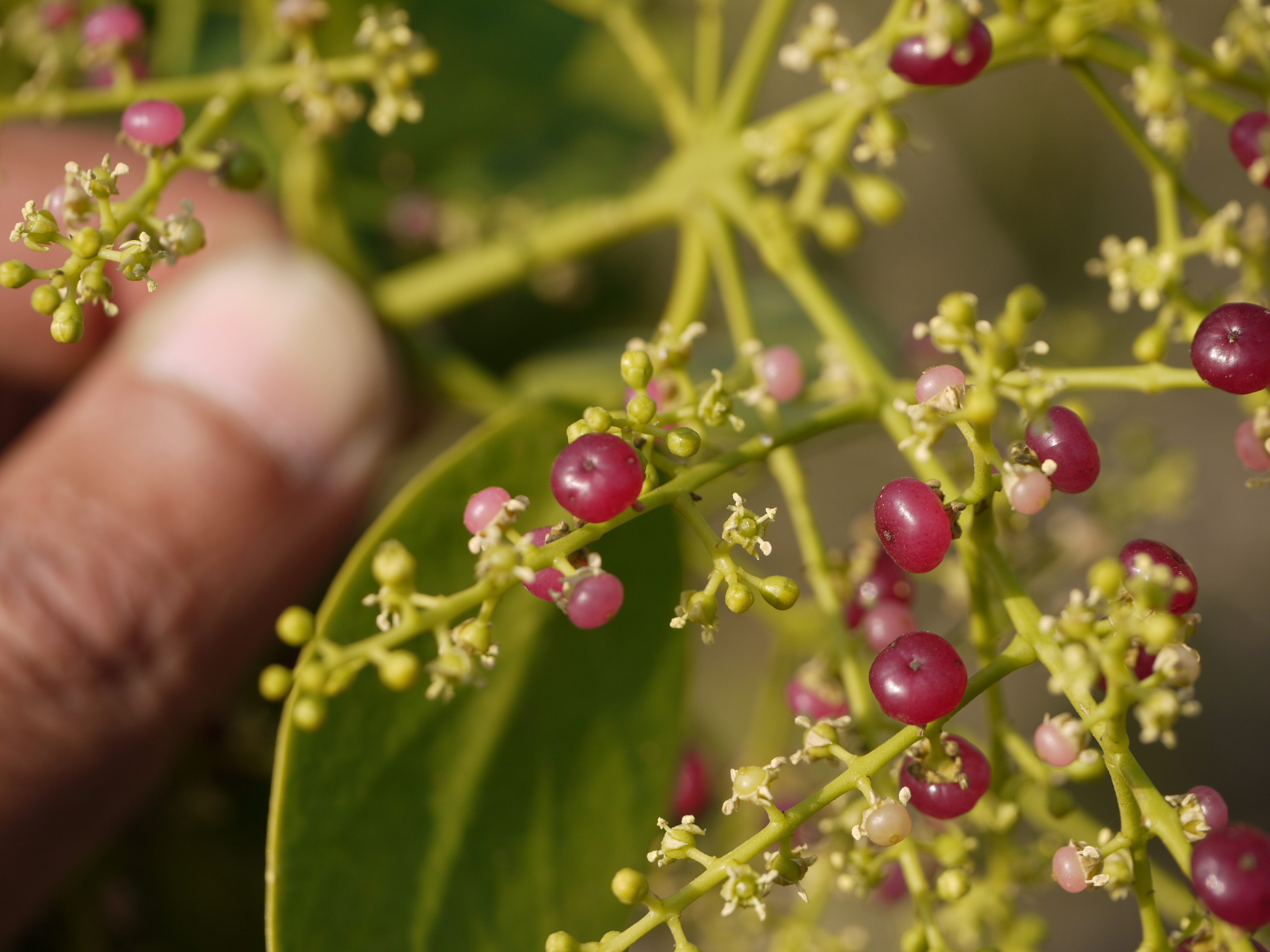 Salvadoraceae » Salvadora persica sal-va-DOR-a -- from the Latin salvus (whole) and dura (skin) PER-see-kuh -- meaning, of or from Persia commonly known as: mustard tree, salt brush, tooth brush tree • Gujarati: પીલુડી piludi • Hindi: मेस्वाक meswak, पिलु pilu • Kannada: ಗೊನಿಮರ gonimara • Marathi: khakan, पिलु pilu • Sanskrit: गुडफल gudaphala, पिलु pilu • Tamil: உகா uka • Telugu: గున్నంగి gunnangi References: World Agroforestry Centre • eFlora • Forest Flora of Andhra Pradesh